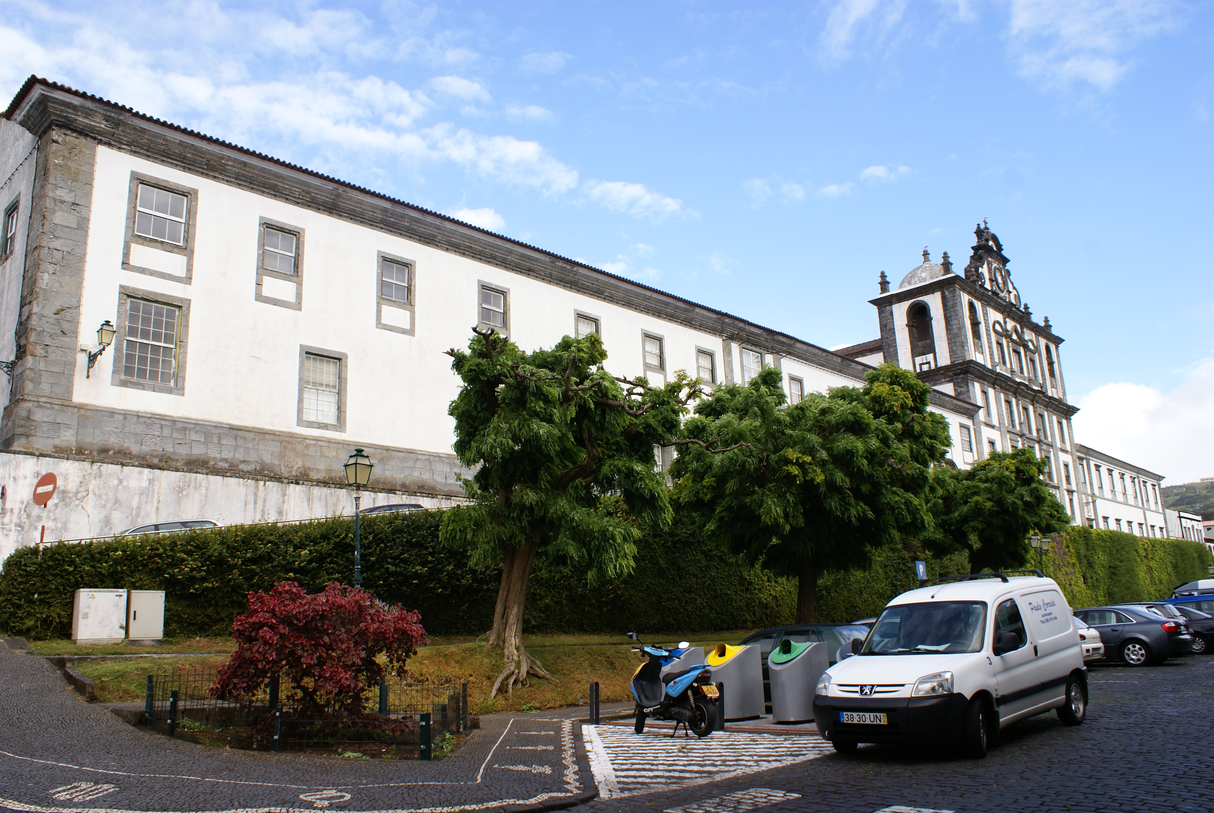 Historical Convento dos Jesuítas da Horta, now home to the municipal and parish governments, and regional museum, Matriz, Horta, Faial (Azores), Portugal